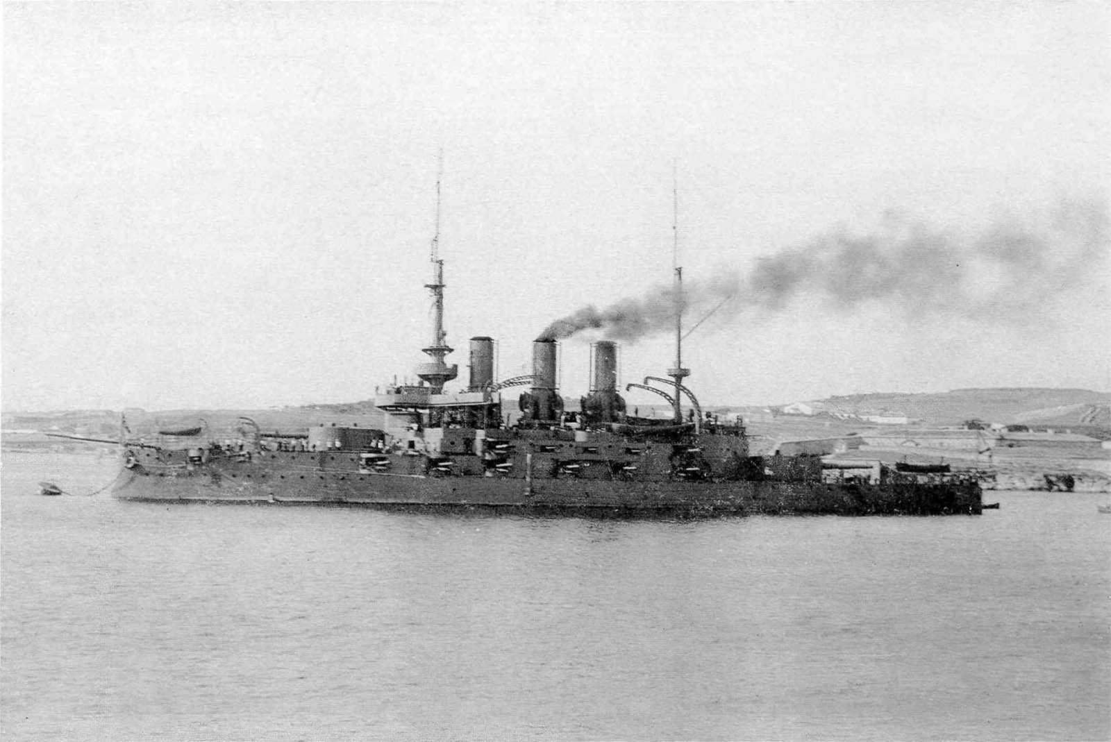 Imperial Russian battleship Panteleimon in Sevastopol, 1908.